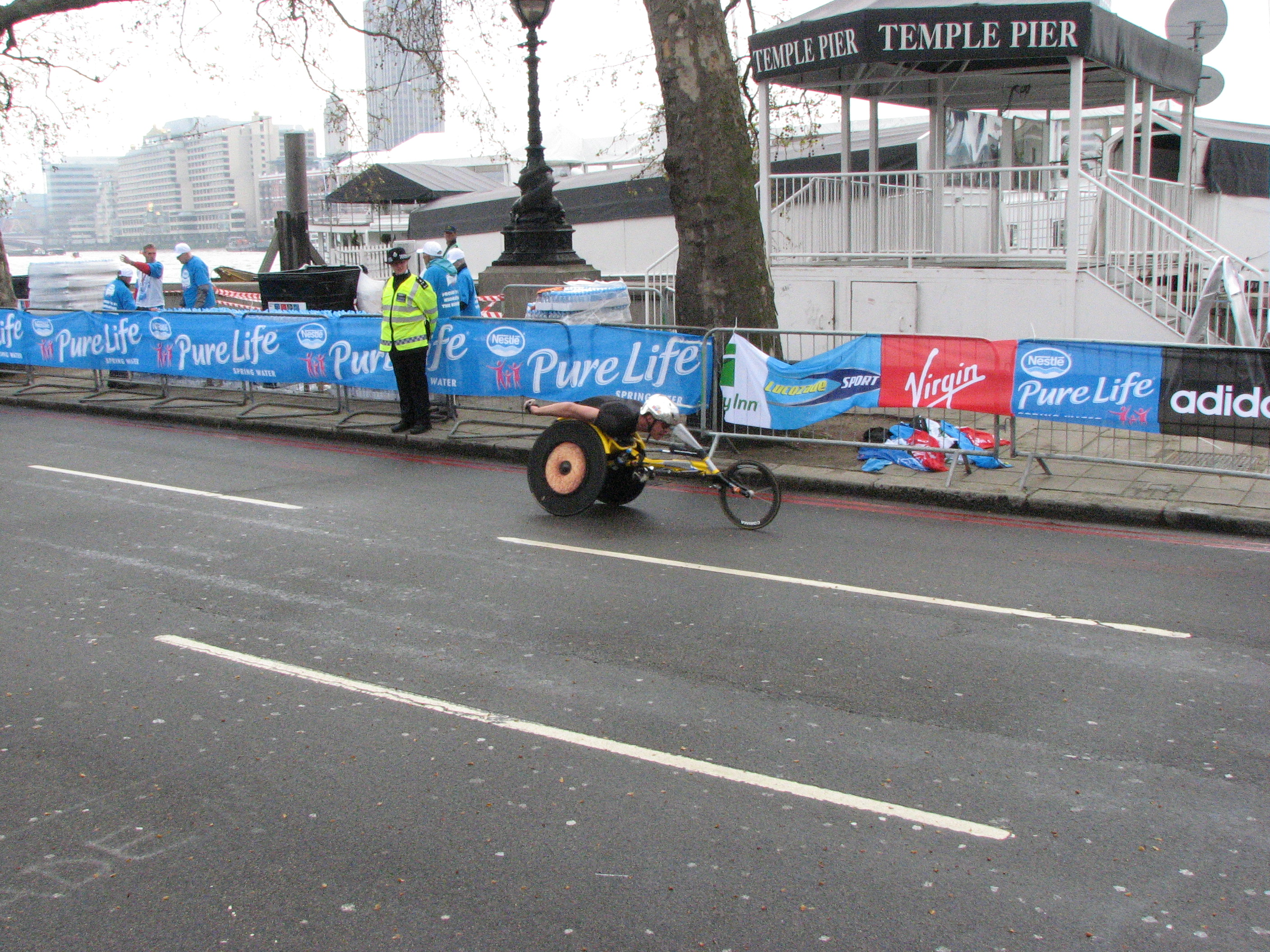 London Marathon 25 April 2010. Marcel Hug is third at this point, Temple Pier, about a mile and a half away from this finish. David Weir is struggling with a flat tyre, and Marcel overtook him to finish second.